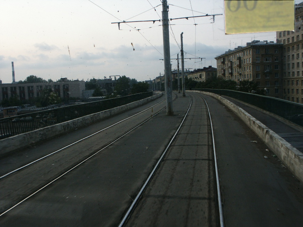 Tram-only viaduct in Saint Petersburg, Russia